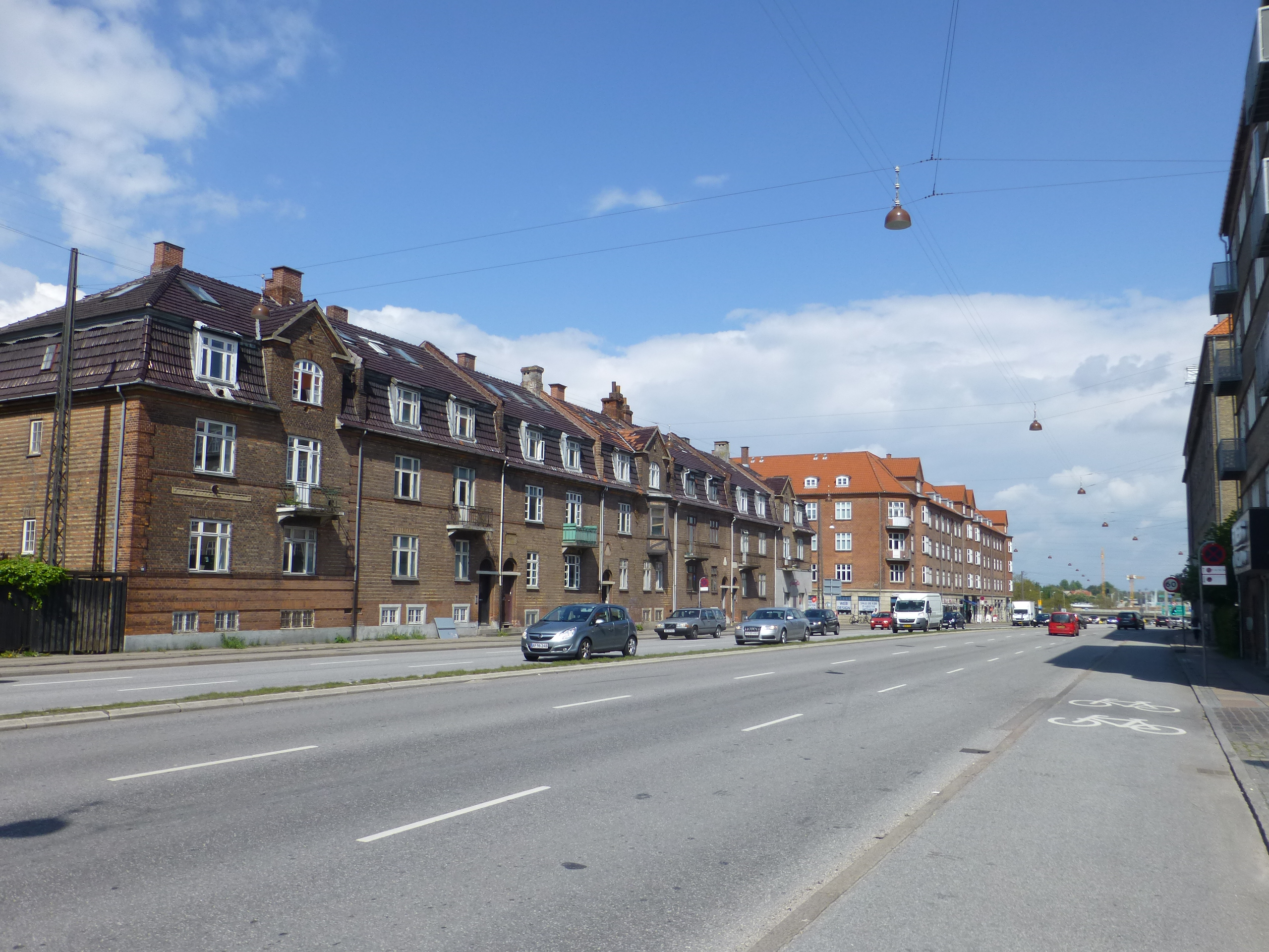 The street Lyngbyvej in Østerbro in Copenhagen.